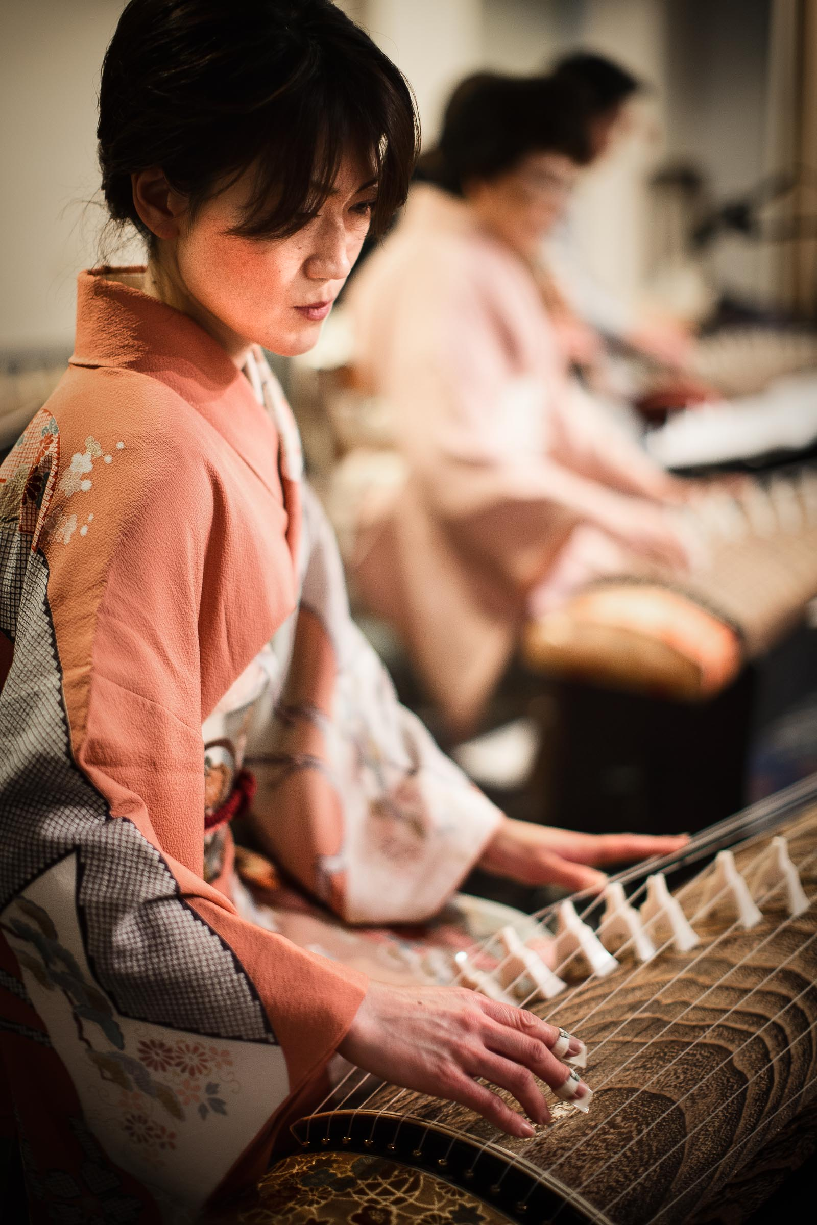 A member of the Japanese koto music group, Kin-yu-kai, performs during a New Year's event hosted at Yokota Air Base, Japan, Jan. 26, 2013. The koto players accompanied Band of the Pacific-Asia jazz ensemble Pacific Showcase for a bilateral performance of "Sakura."